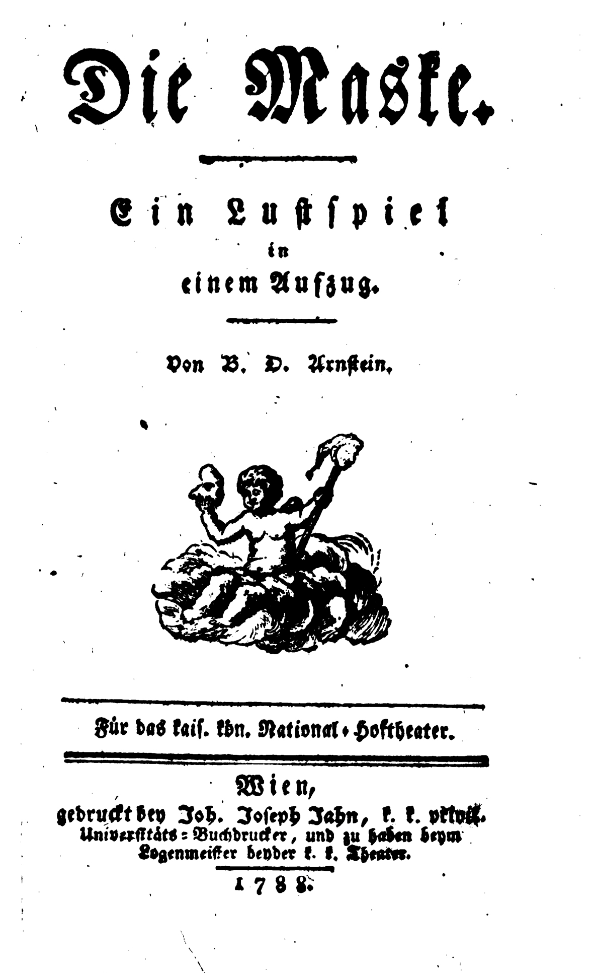 Title page of Benedikt David Arnstein's play The Mask